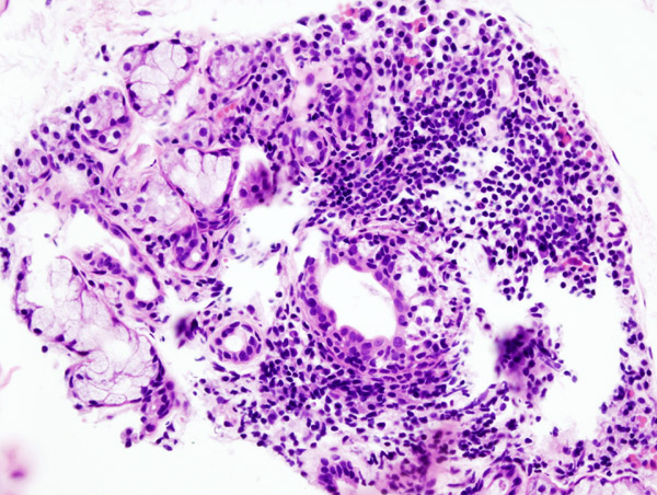 Histopathologic image of focal lymphoplasmacytic infiltration in the minor salivary gland associated with Sjögren syndrome. Lip biopsy. H & E stain.